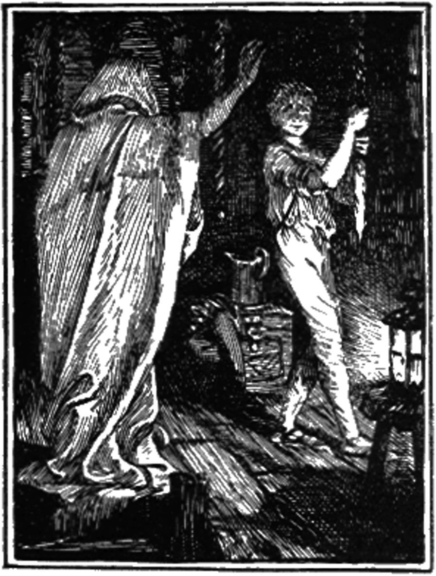 Illustration by H.J. Ford from the 1889 edition of 'The Blue Fairy Book' edited by Andrew Lang